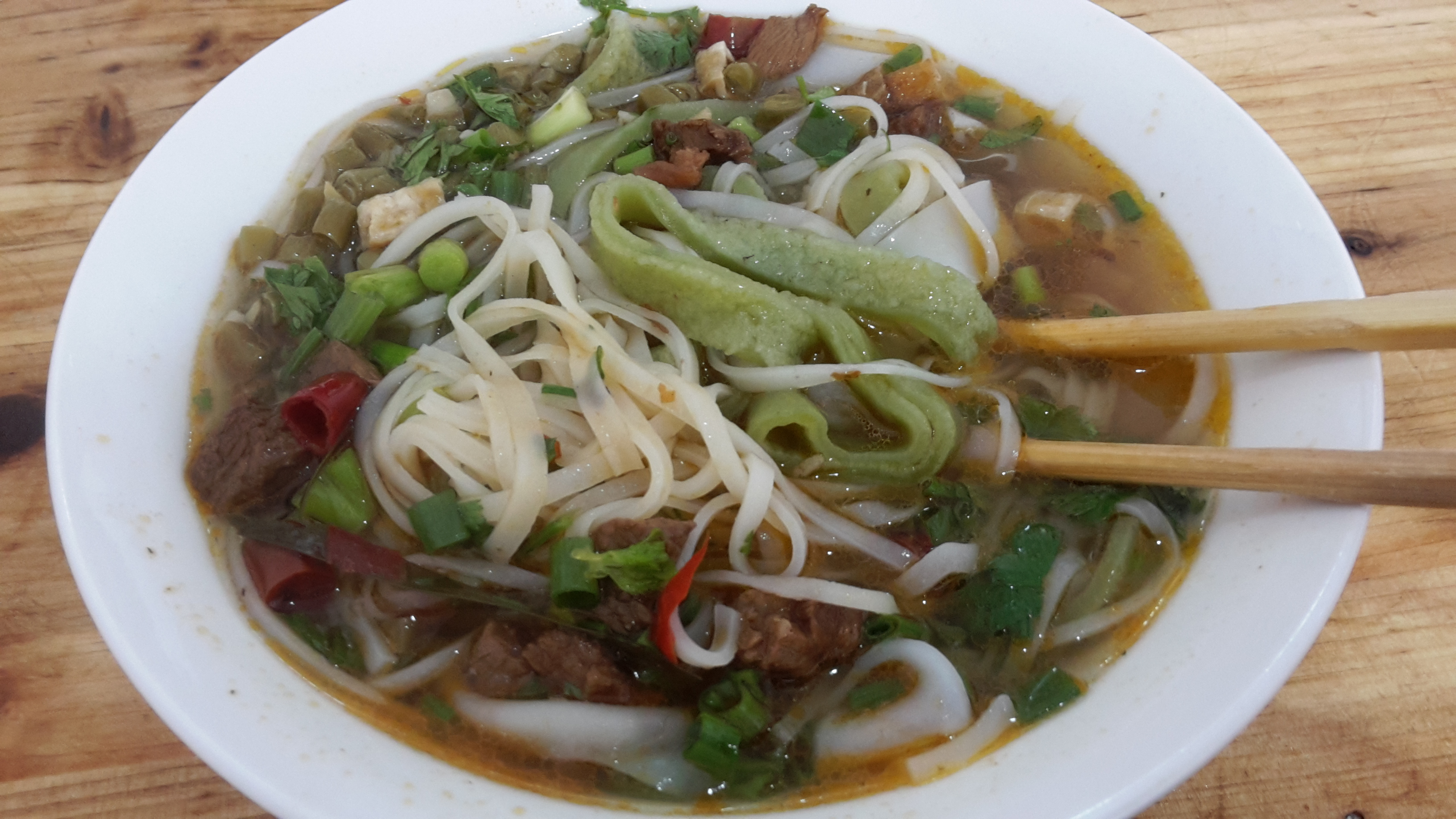 =Rice noodles (米粉) and mungo pasta (绿豆粉), Dong minority specialities from Zhenyuan Xian, Guizhou province, China.